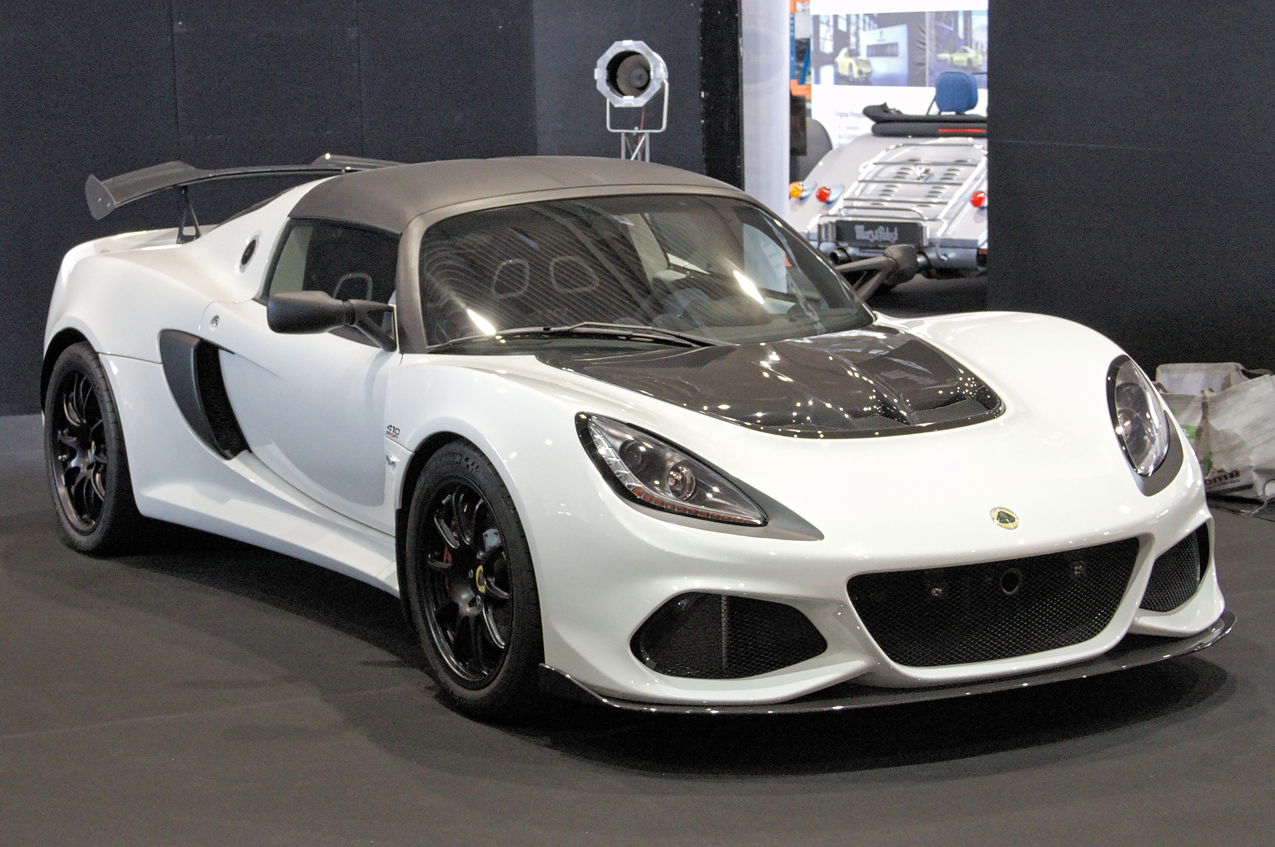 Lotus_Exige_Sport_410 at Retro Classics 2020